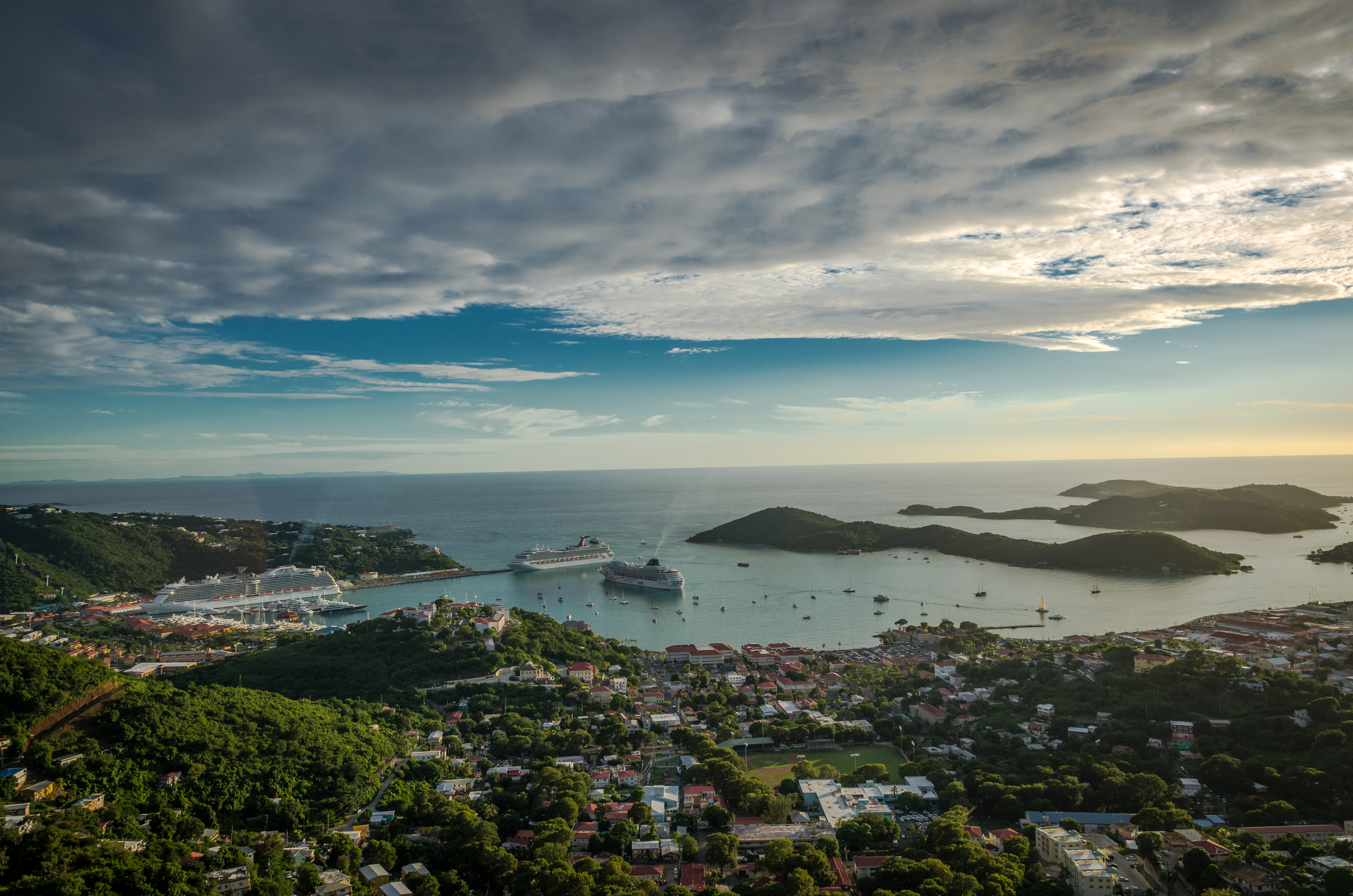 Panoramic view of the Islands of St. Thomas, (C) Sunil Pereira